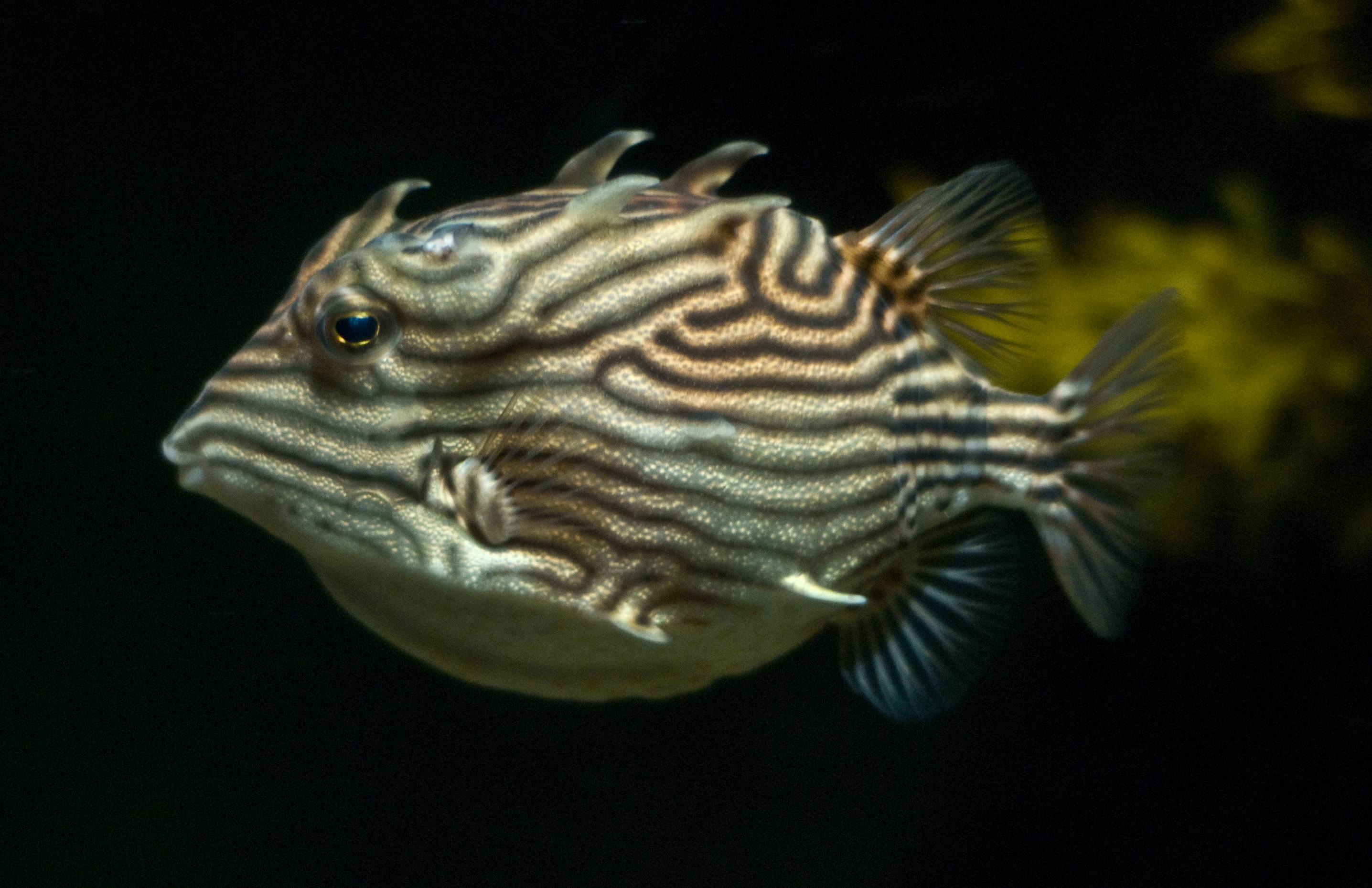 Aracana ornata Female Ornate Cowfish